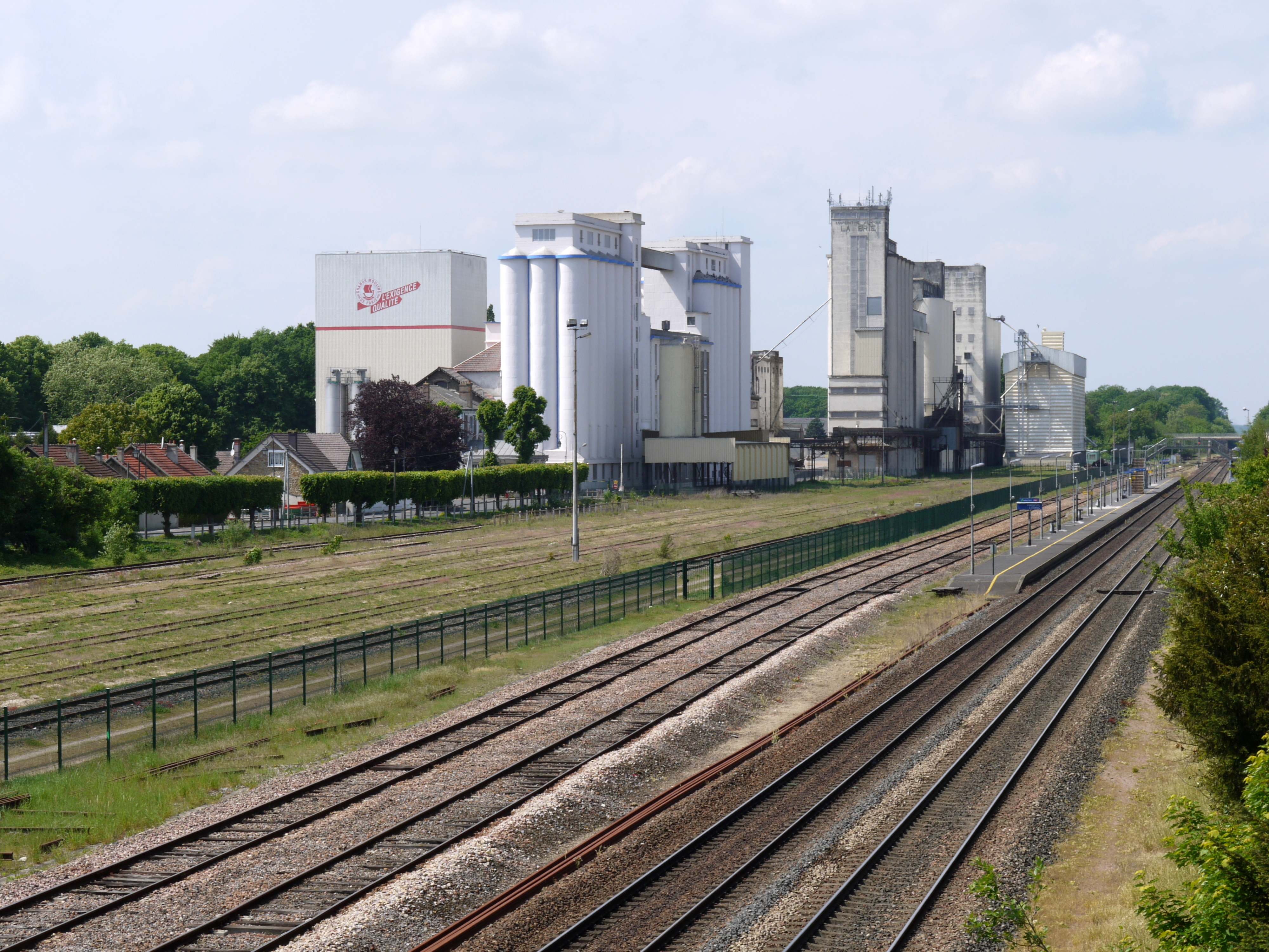 Flour mills and railways station in Verneuil_l'Etang (Seine et Marne, France)